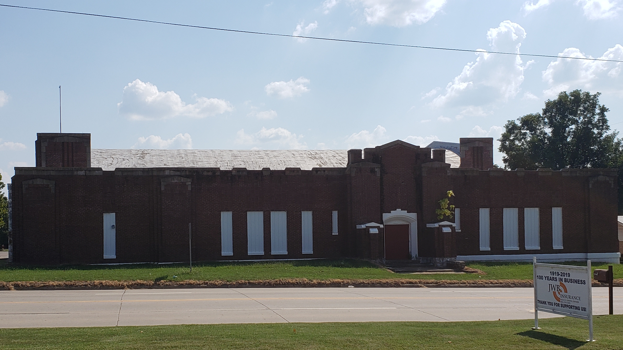 Front view of Holdenville, Oklahoma armory built in 1936 as part of WPA make-work program.